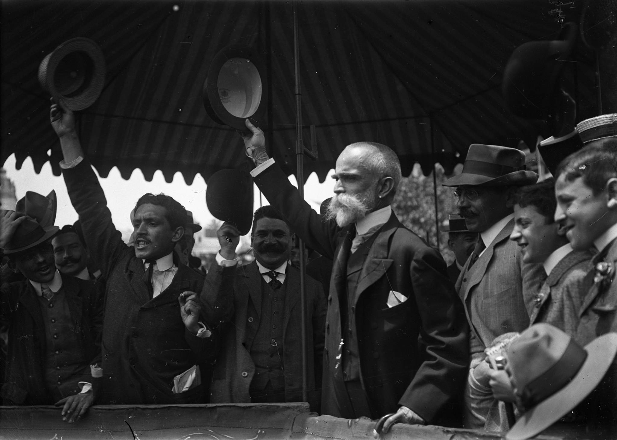 Bernardino Machado at a republican political rally, c. 1907.